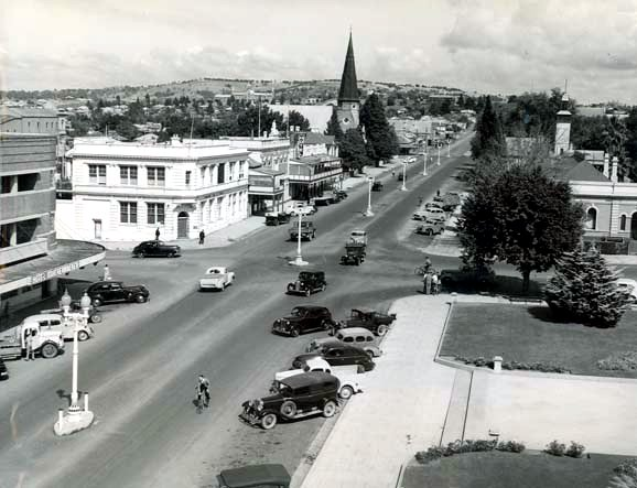 View of William Street, Bathurst Dated: No date Digital ID: 12932_a012_a012X2449000063 Rights: We'd love to hear from you if you use our photos. Many other photos in our collection are available to view and browse on our website using Photo Investigator .